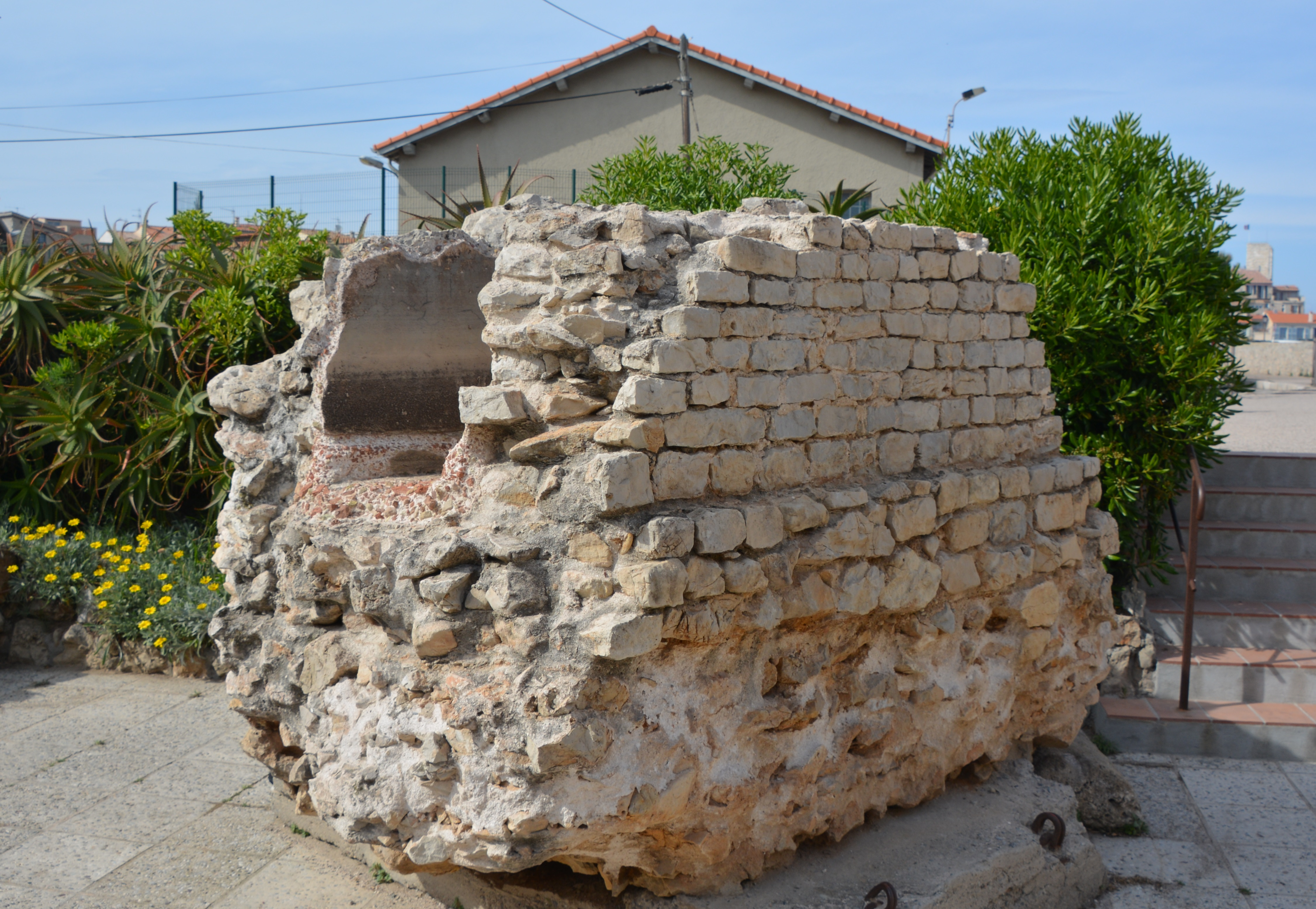 Part of Aqueduc Fontvielle, outside Musée d'arcéologie d'Antibes